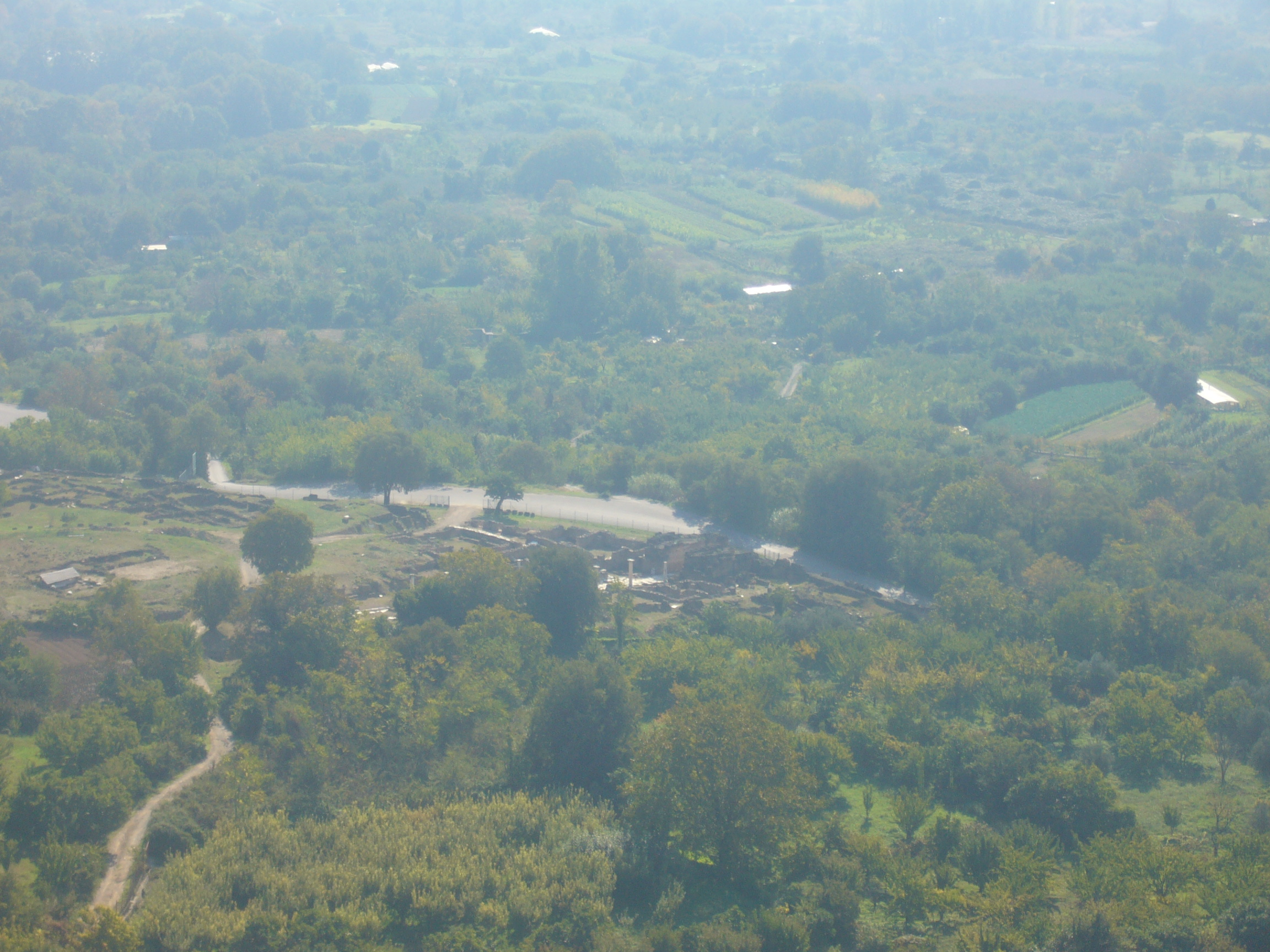 Edessa, Pella prefecture, Greece.